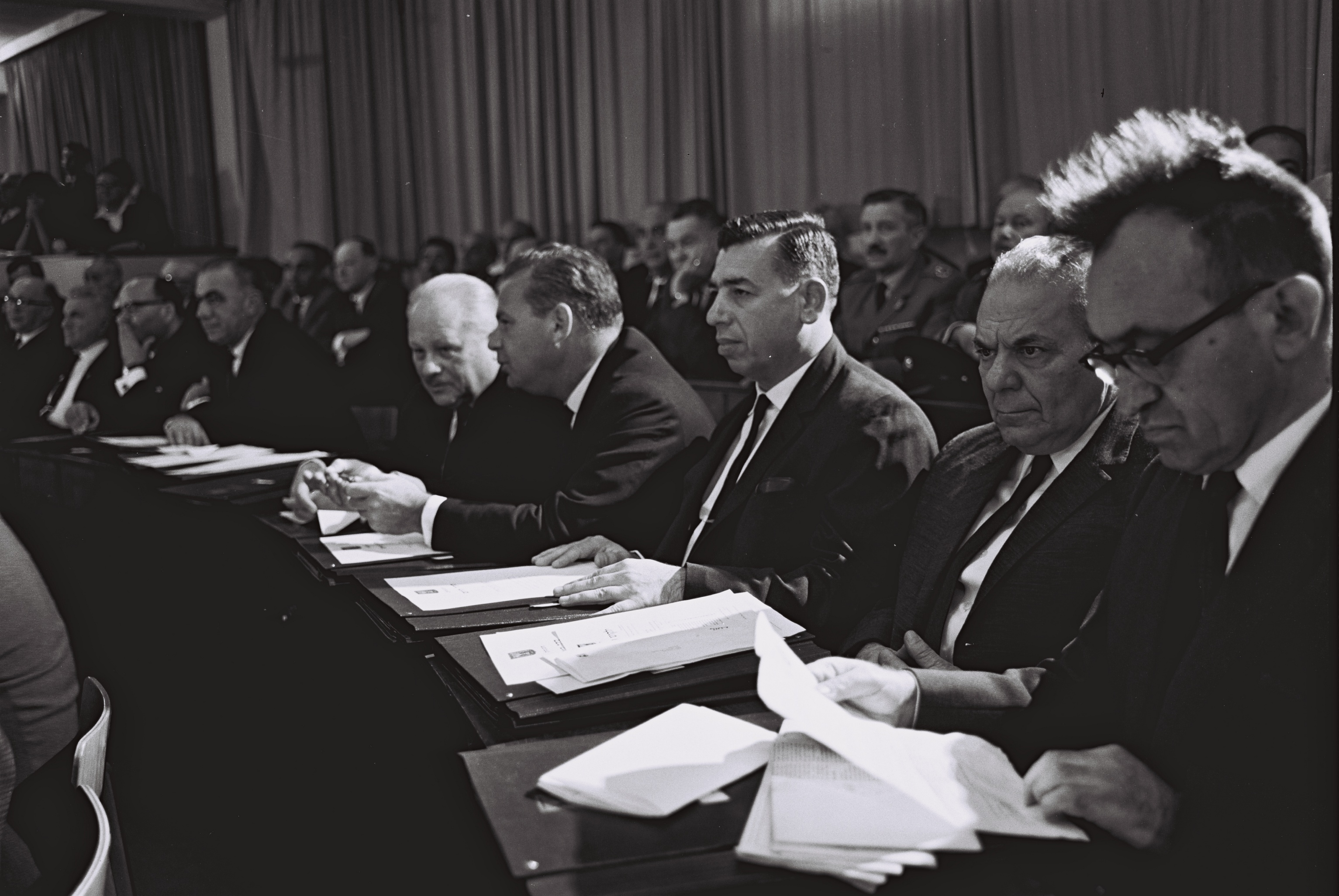 The 6th Knesset during the opening session in Jerusalem. r. to l. mk Eliyahu Meridor, Baruch Uziel, Menachem Yedid, Shmuel Tamir and mr. Shofman of Gahal party.